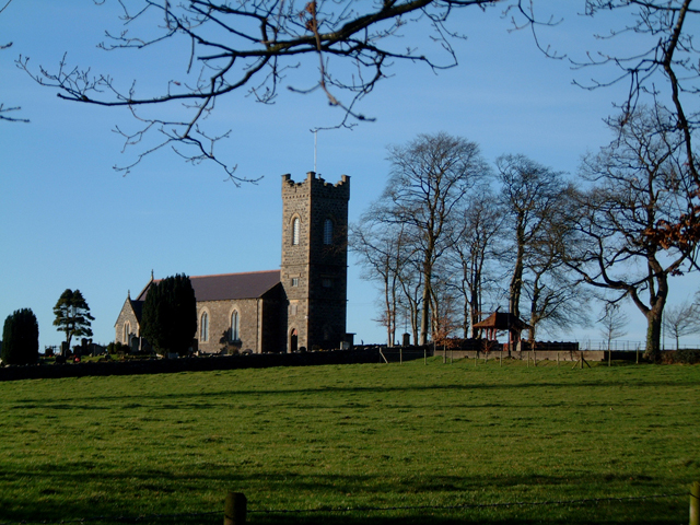 Tartaraghan Church from a distance